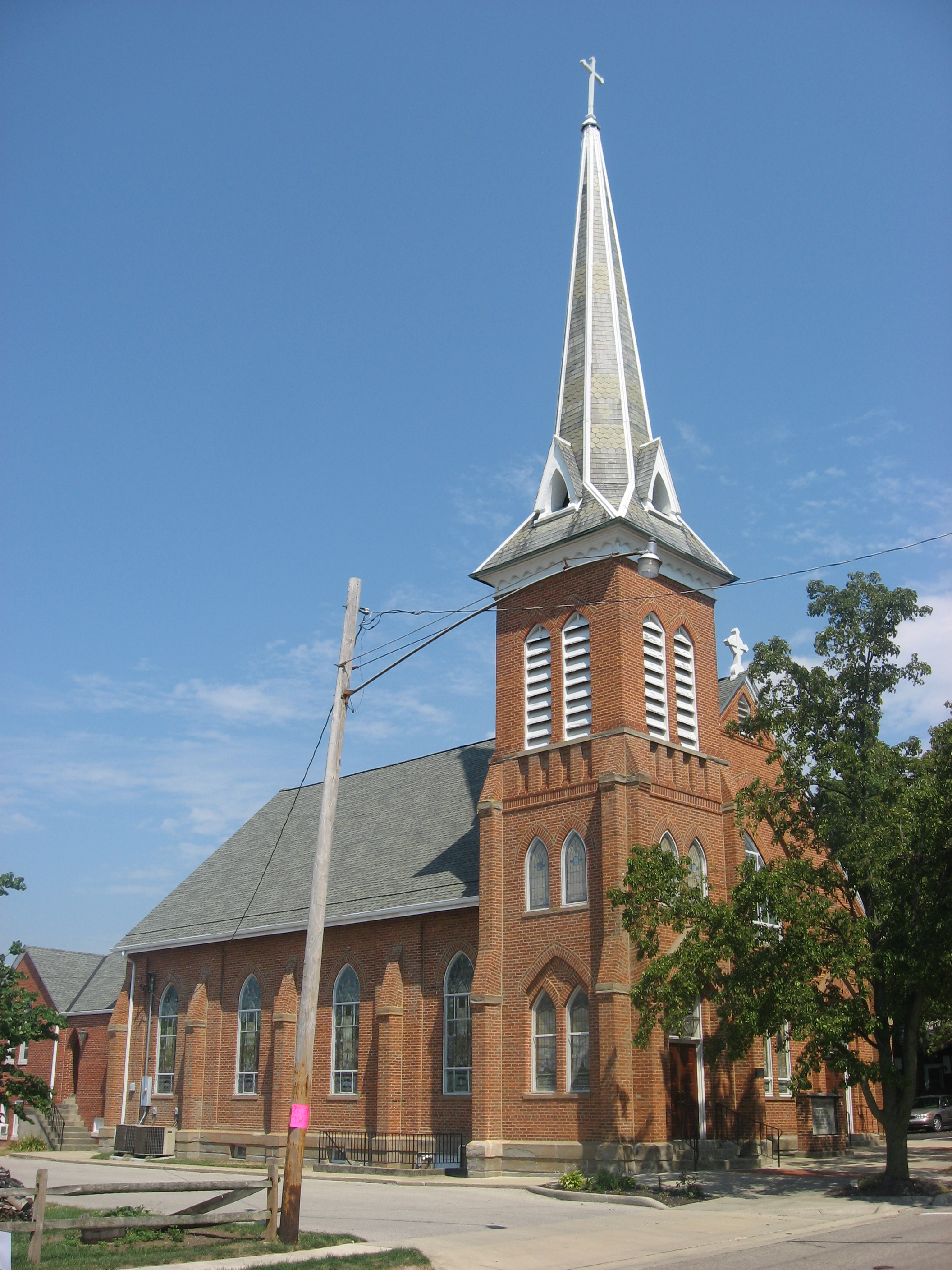 Front and southern side of Peace Lutheran Church, located at 28 Elm Street in Canal Winchester, Ohio, United States. Built in 1881 for a Lutheran church, it was home to a Baptist congregation for a time before being purchased by the present Lutheran owners. It is part of the West Mound Street Historic District, a historic district that is listed on the National Register of Historic Places.